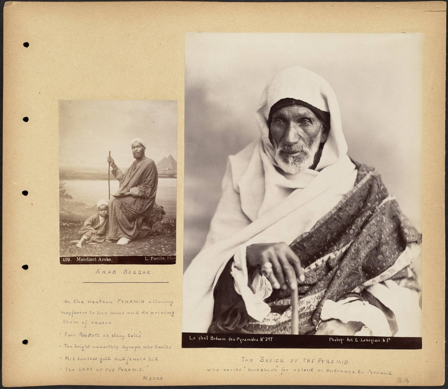 BPLDC no.: 08_04_000017 Page Title: Arab Beggar and the Sheick of the Pyramid Collection: Tupper Scrapbooks Collection Album: Volume 26: Lower Egypt. Pyramids. Call no. 4098B.104 v26 (p. 16) Creator: Tupper, William Vaughn Description: Scrapbook page with two portrait photographs of Egyptian men, annotated with captions and quotes. Subjects: Egypt travel photography portraits beggars Beggars--Egypt Sheikhs--Egypt Page size: 33 x 38.1 cm Annotations: [continued from page 26-15] on the western Pyramid alluring wayfarers to her arms and depriving them of reason "Fair Rhod’ope as story tells The bright unearthly nymph who dwells Mid sunless gold and jewels hid The Lady of the Pyramid.” Moore Language: English, photograph has French title Rights: No known restrictions. Coverage: Egypt Notes: Title supplied by cataloger, derived from captions or annotated information. Format: Scrapbooks Technique: Photographs, Albumen prints BPL Department: Print Department Photo 1: Photographer: Fiorillo, Luigi Title: 429. Mandiant Arabe Caption: Arab beggar Date: ca. 1860-1909 Location on page: Left Photo 2: Photographer: G. Lékégian & Cie. Title: Le chef Bedouin des Pyramides No. 317 Caption: The Sheick of the Pyramid who exacts “backshish” for ascent or entrance to Pyramid Date: ca. 1865- 1895 Location on page: Right Flickr data on 2011-08-03: Camera: Sinar AG Sinarback 54 FW, Sinar m License: CC BY 2.0 User: Boston Public Library BPL